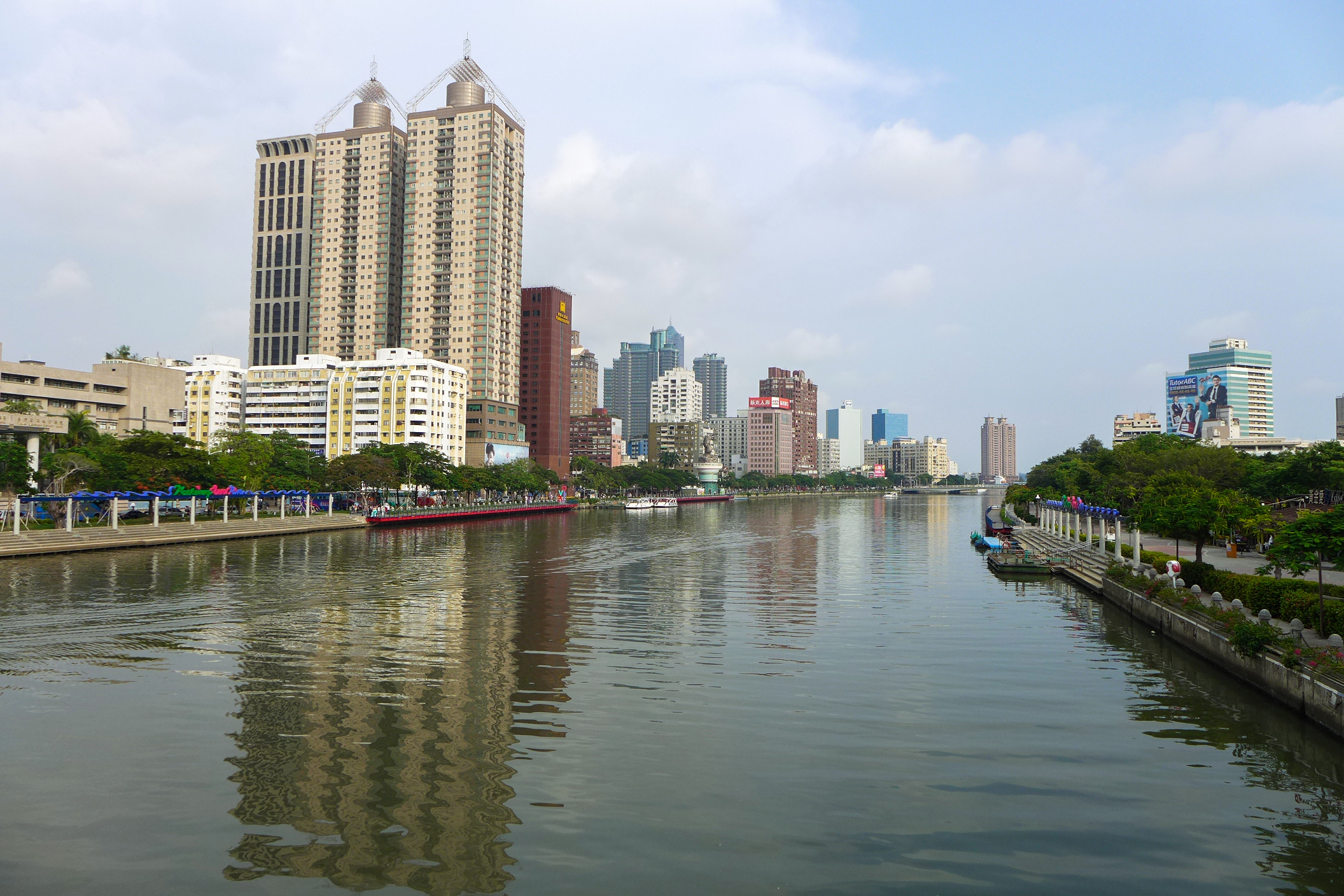 Love River